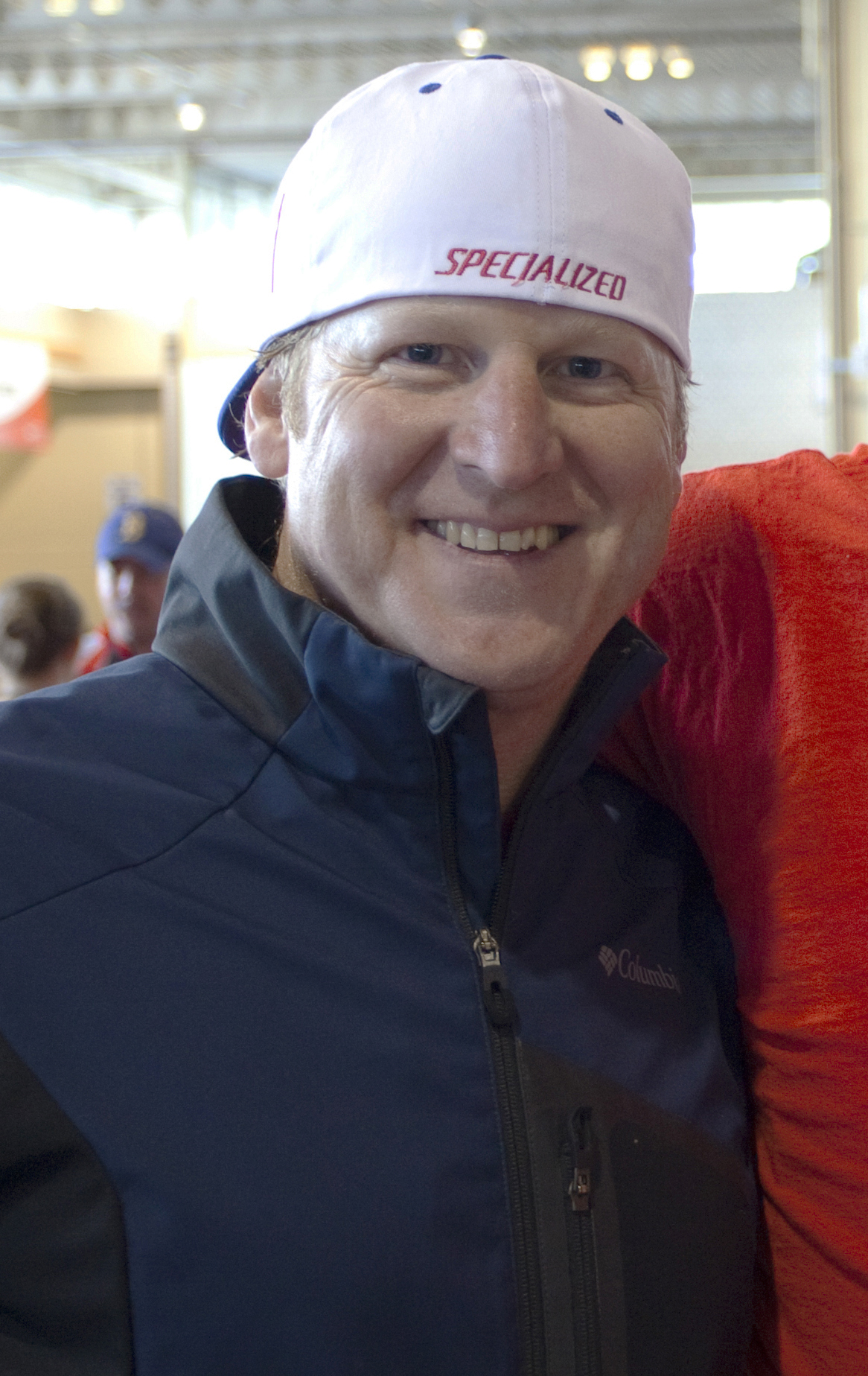 The Olympic medalist Curt Harnett